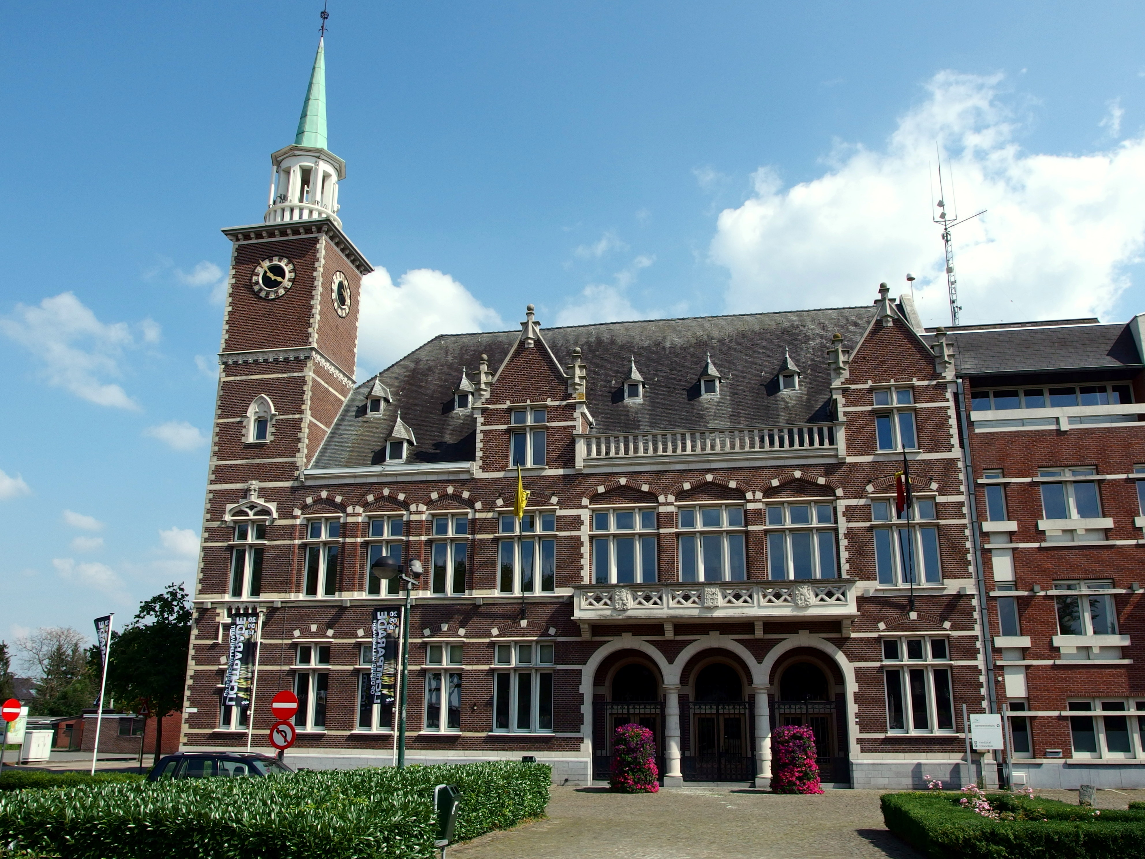 2014-07-26 in Maasmechelen.